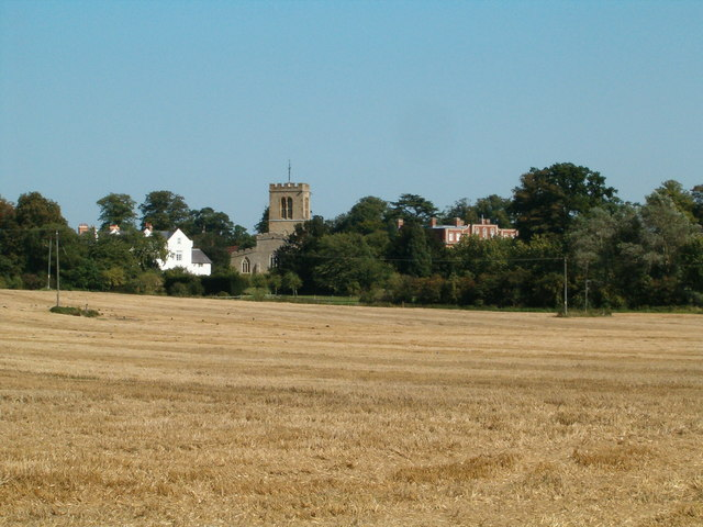 View across a stubble field to the village of Chicheley, Buckinghamshire, with the tower of St Laurence's parish church showing over the tres